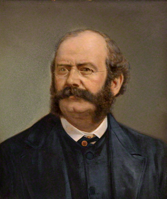 Portrait of architect William Burges. Watercolour, body colour and gum arabic over albumen print laid down on card, 1881 12 in. x 9 1/2 in. (305 mm x 241 mm) NPG P552